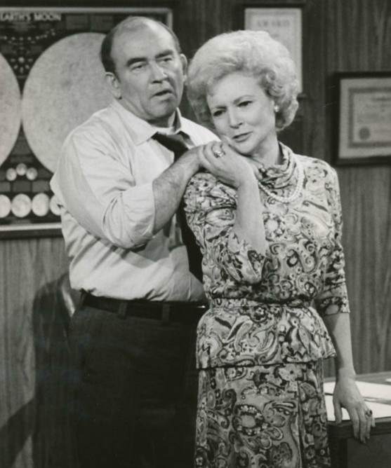 Publicity photo of Ed Asner (Lou Grant) and Betty White (Sue Ann Nivens) from The Mary Tyler Moore Show. In this episode, Lou has to deliver the bad news to Sue Ann that her program has been cancelled.